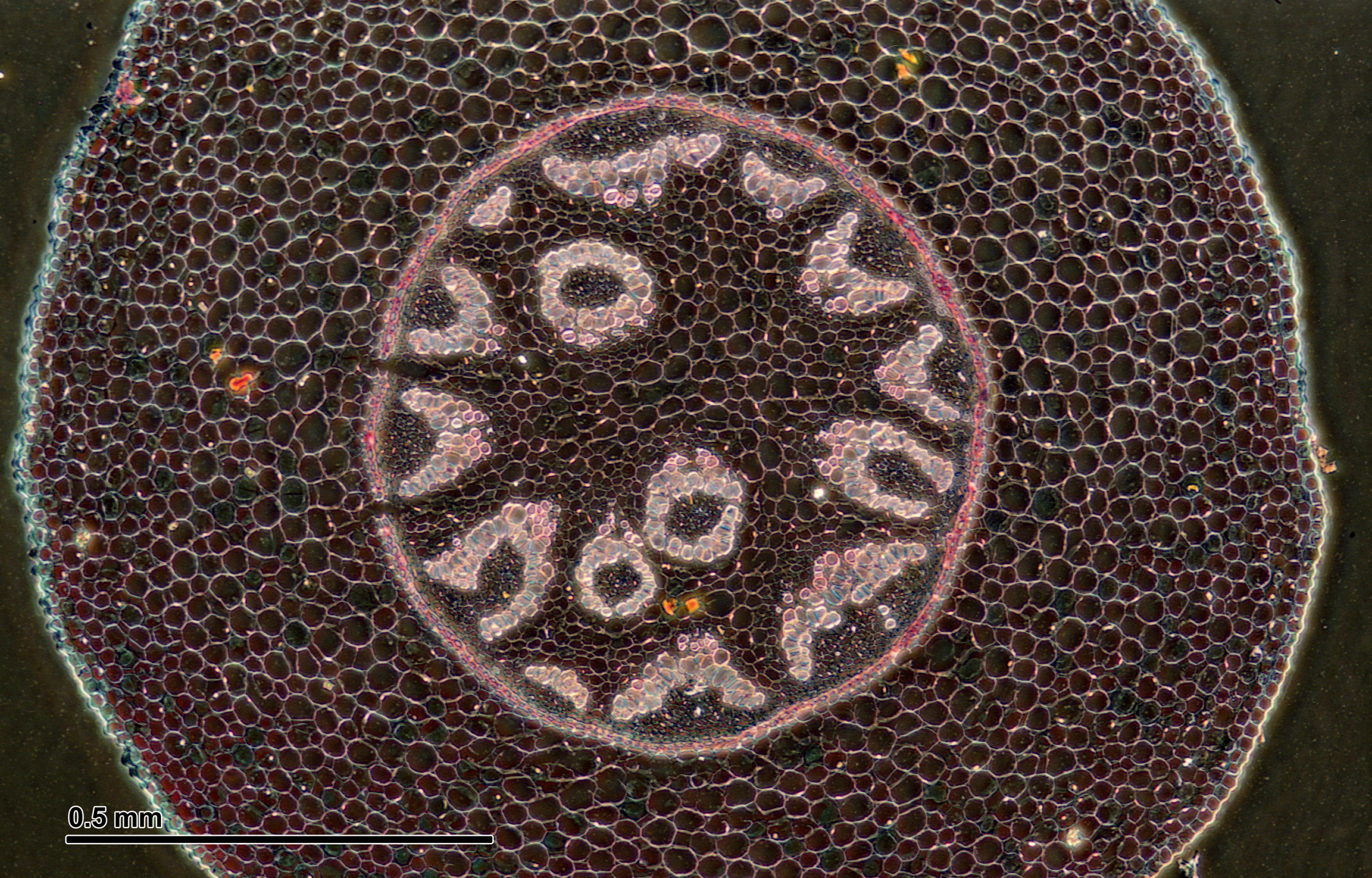 Rhizome: Lily of the Valley (Convallaria majalis). Optical microscopy technique: Negative phase contrast. Magnification: 160x (for picture width 26 cm ~ A4 format).